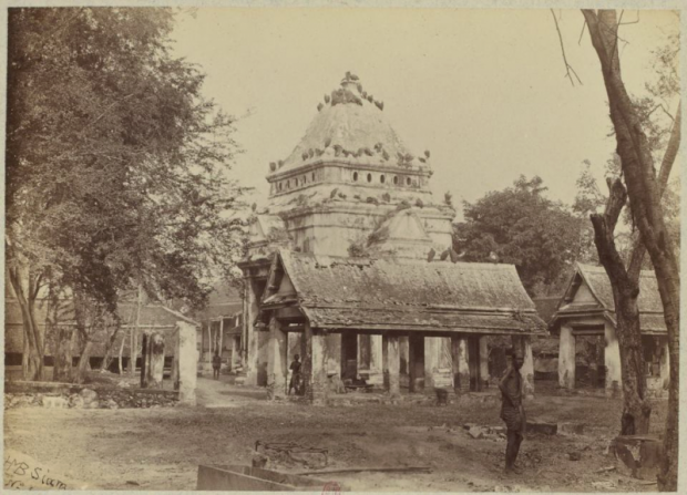 Cement Crematoria @ Wat Saket